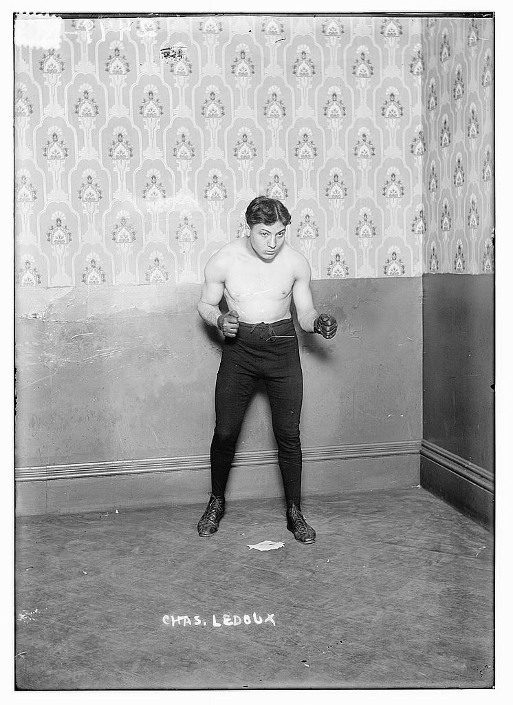 French boxer Charles "Little Apache" Ledoux